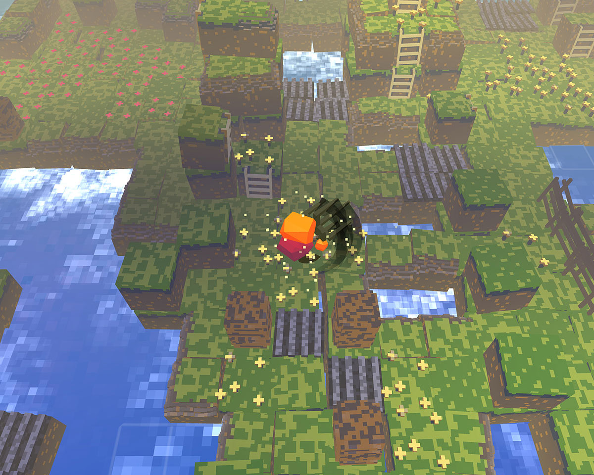 Screenshot from Stephen's Sausage Roll